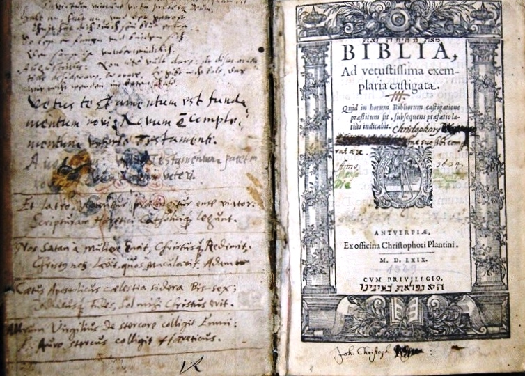 A 1569 Bible in Latin, published by Christopher Plantin